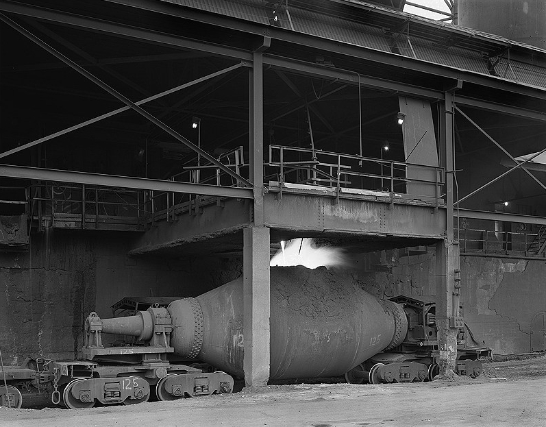 A ladle car at the Severstal plant in Dearborn is filled with liquid iron.